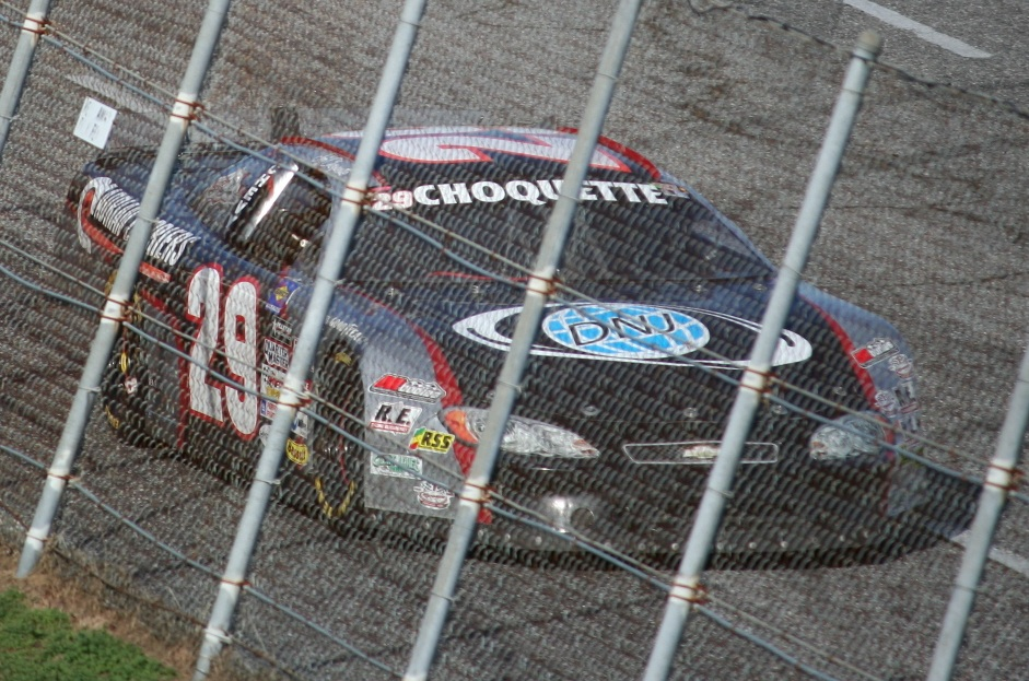 Jeff Choquette races his No. 29 late model at North Wilkesboro Speedway, winning in the ASA Late Model Series on October 31 2010.